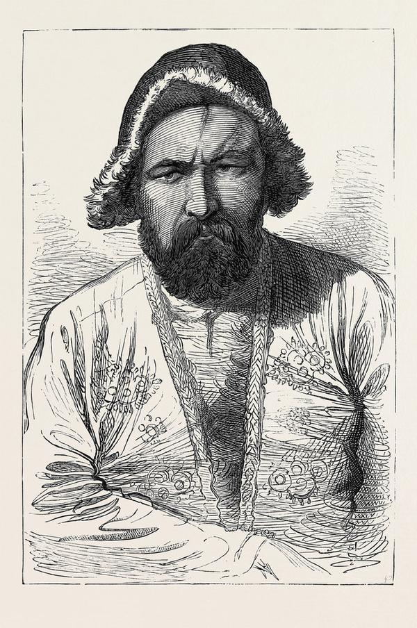 The Afghan War: Afghan Hill Tribes: Wullie Mohammed a Dahzungi (Daizangi) Hazara 1879.